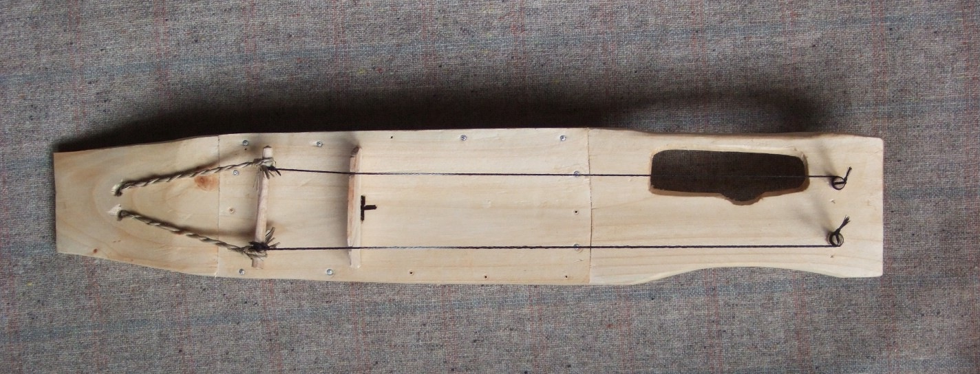 Finnish johuikko (bowed lyre) built by Simon Chadwick (